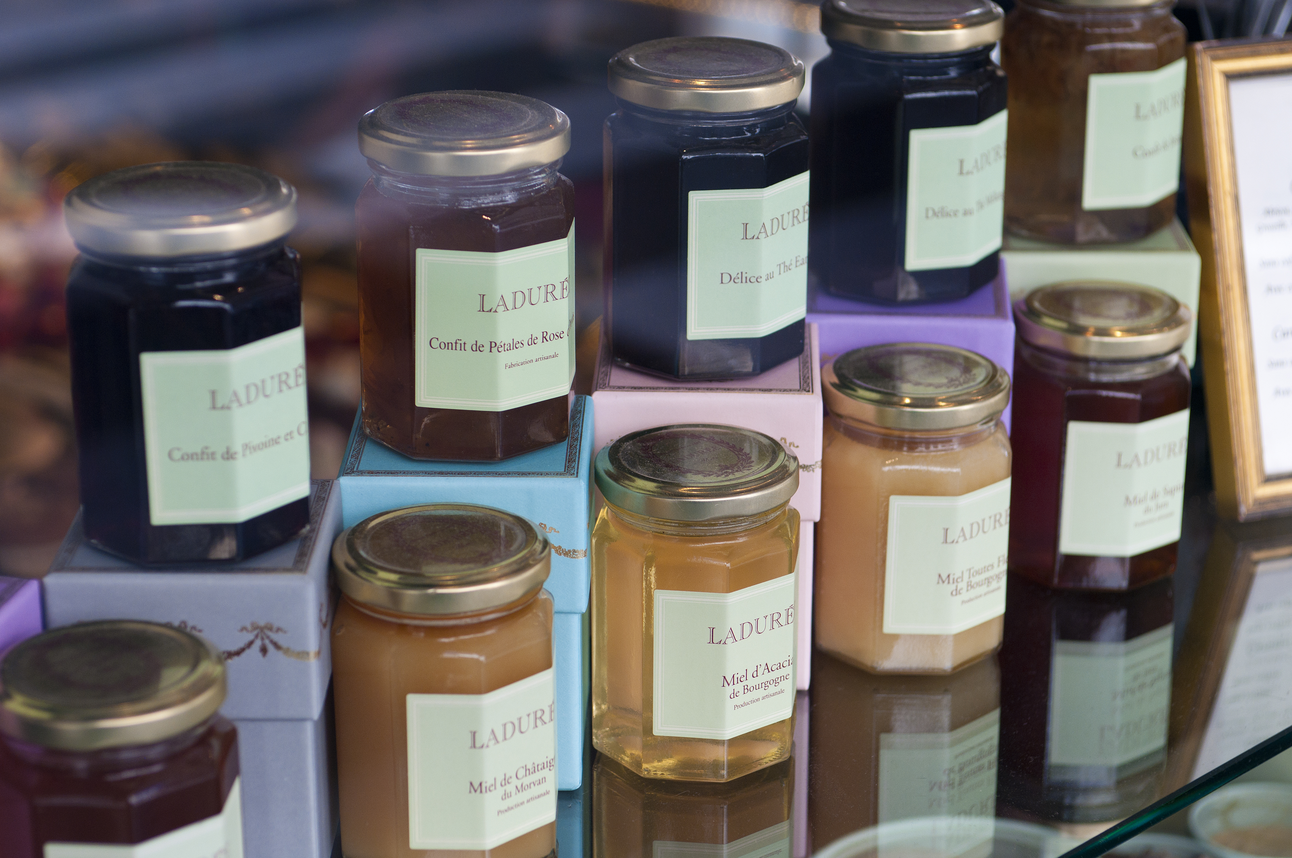 Honey and jams from Ladurée on display, Rue Bonaparte, Paris.